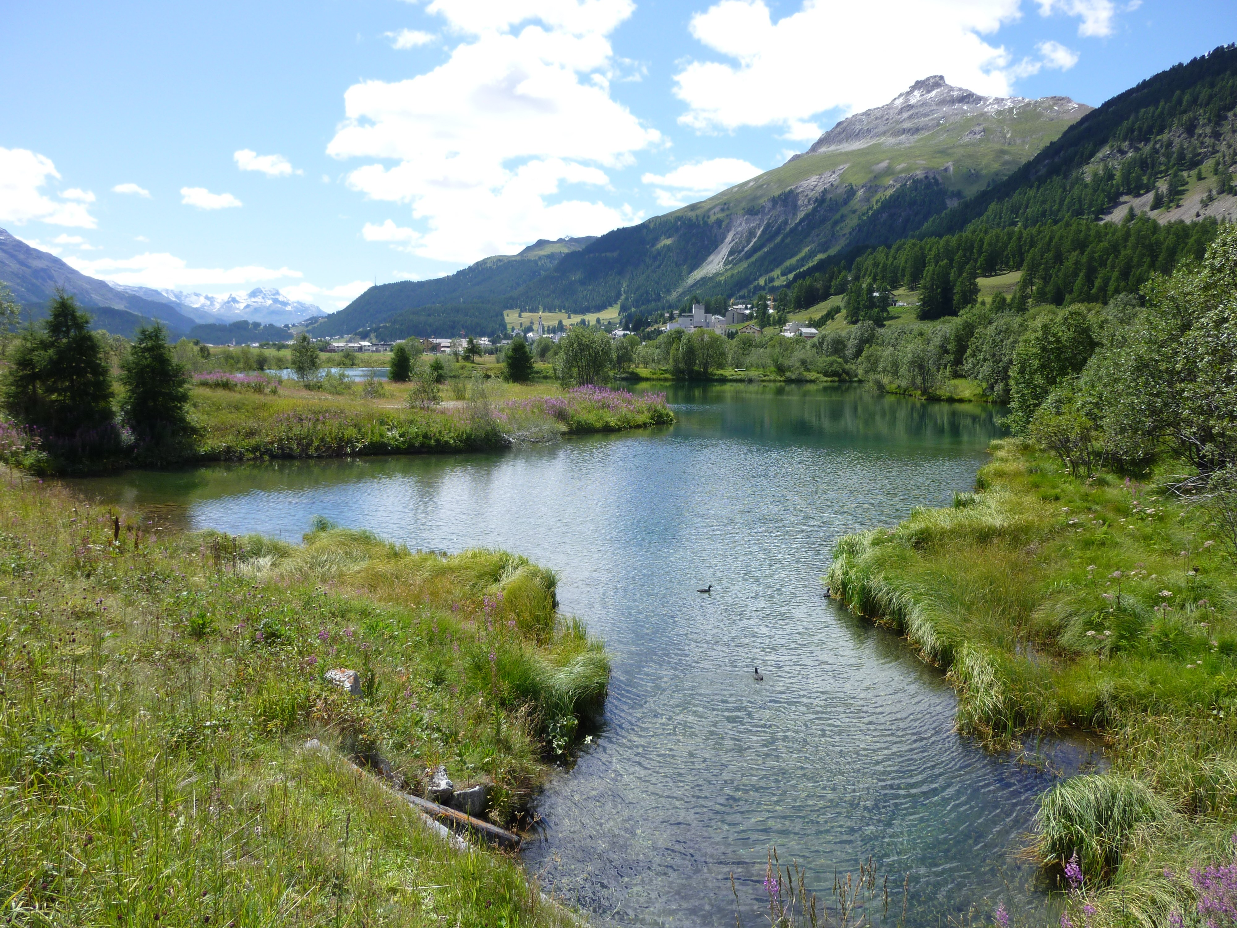 Lej da Gravatscha near Bever, Engadin, Switzerland.